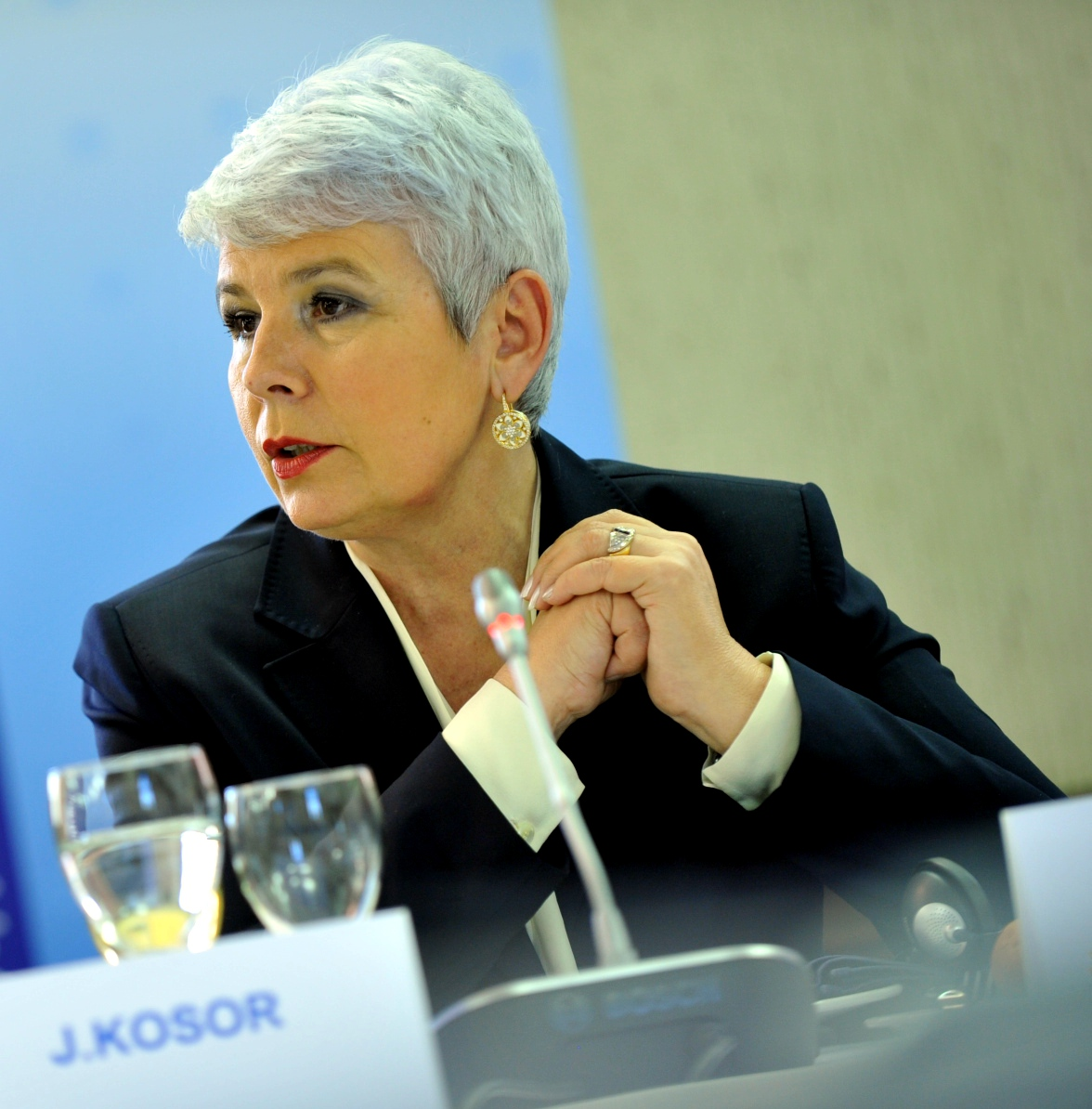 Jadranka Kosor, Prime Minister of Croatia, at the European People's Party Summit March 2011